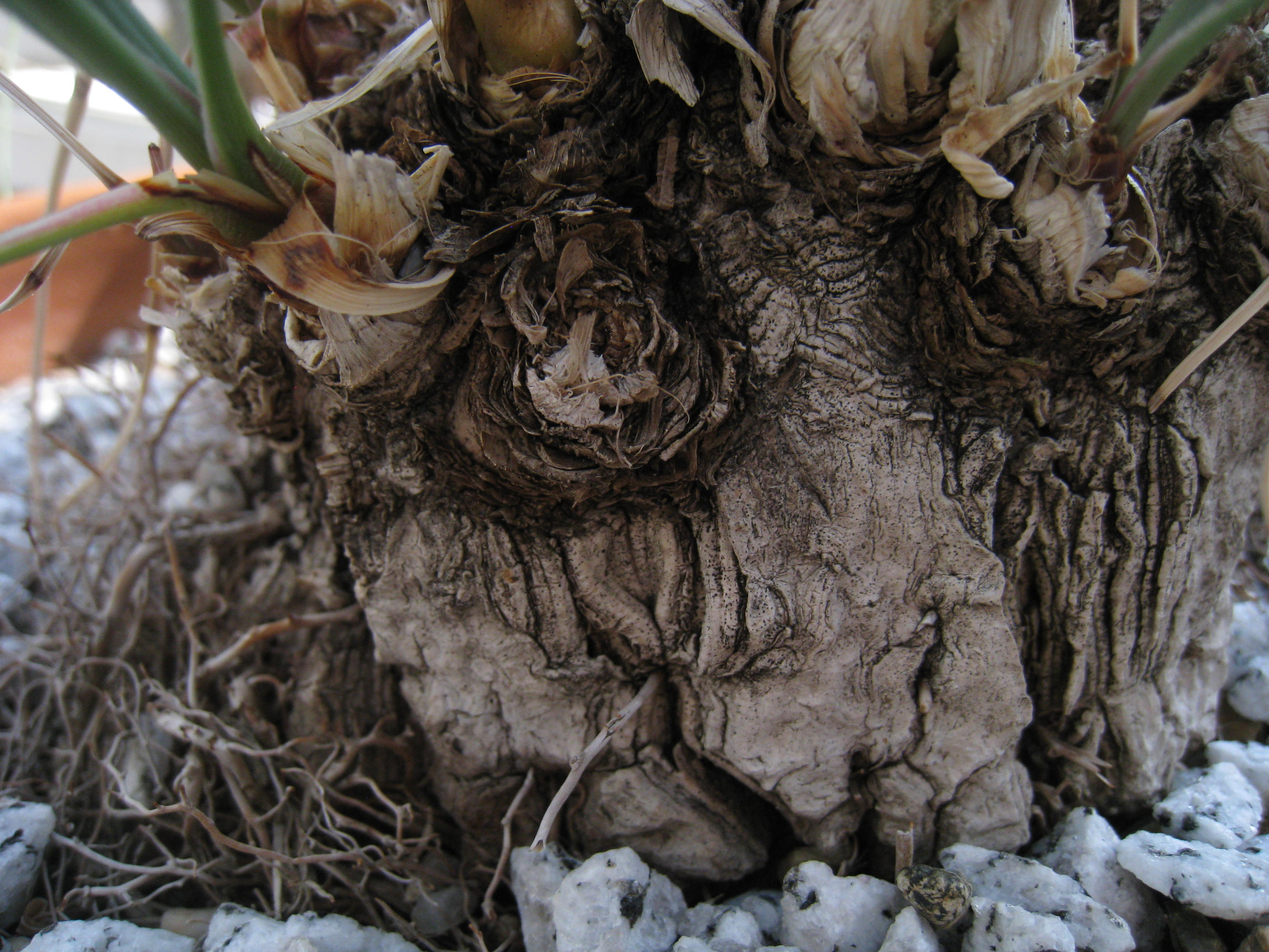 bark of Calibanus hookeri, from the Brooklyn Botanic Garden